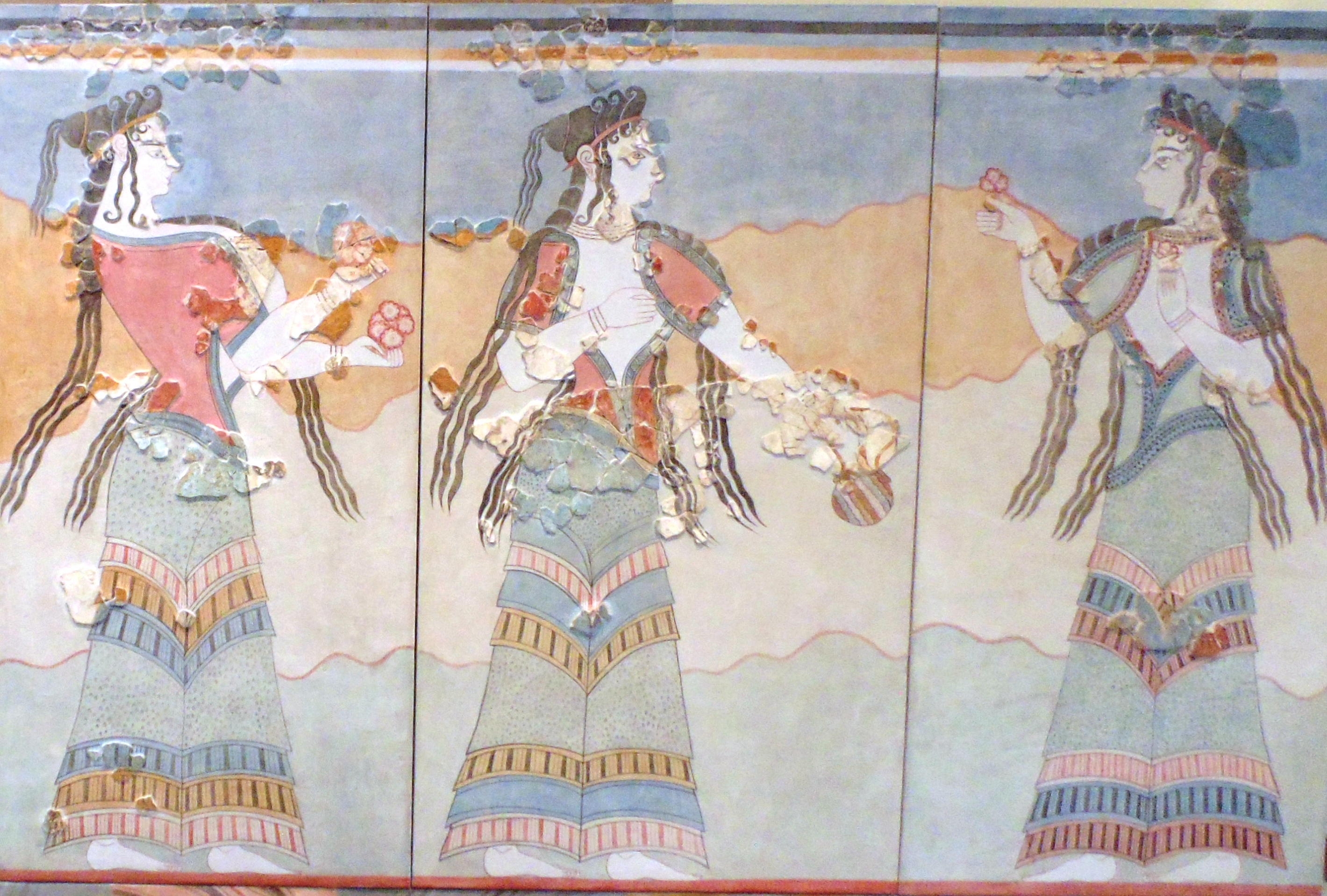 Collection of Archaeological Museum of Thebes